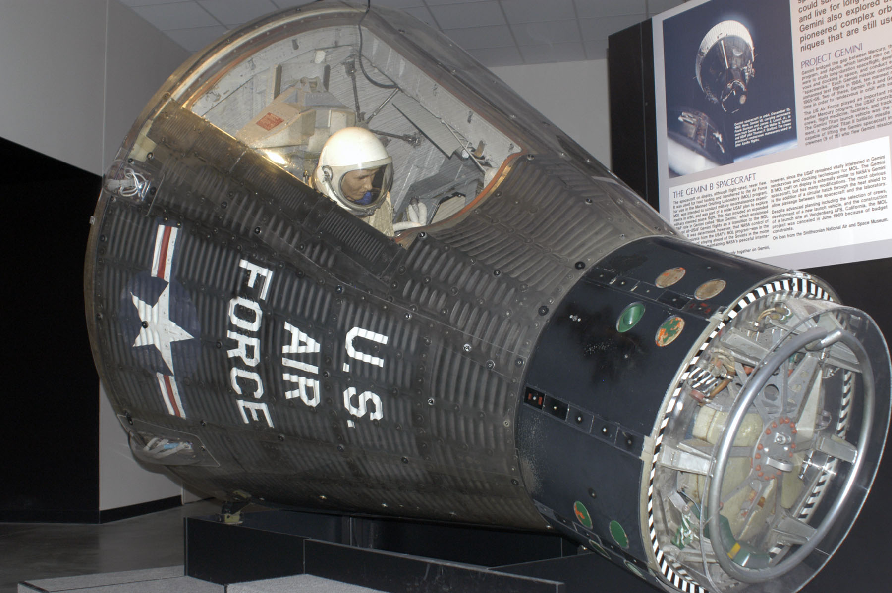 View of a test article designated the Gemini B, currently housed in the National Museum of the United States Air Force.